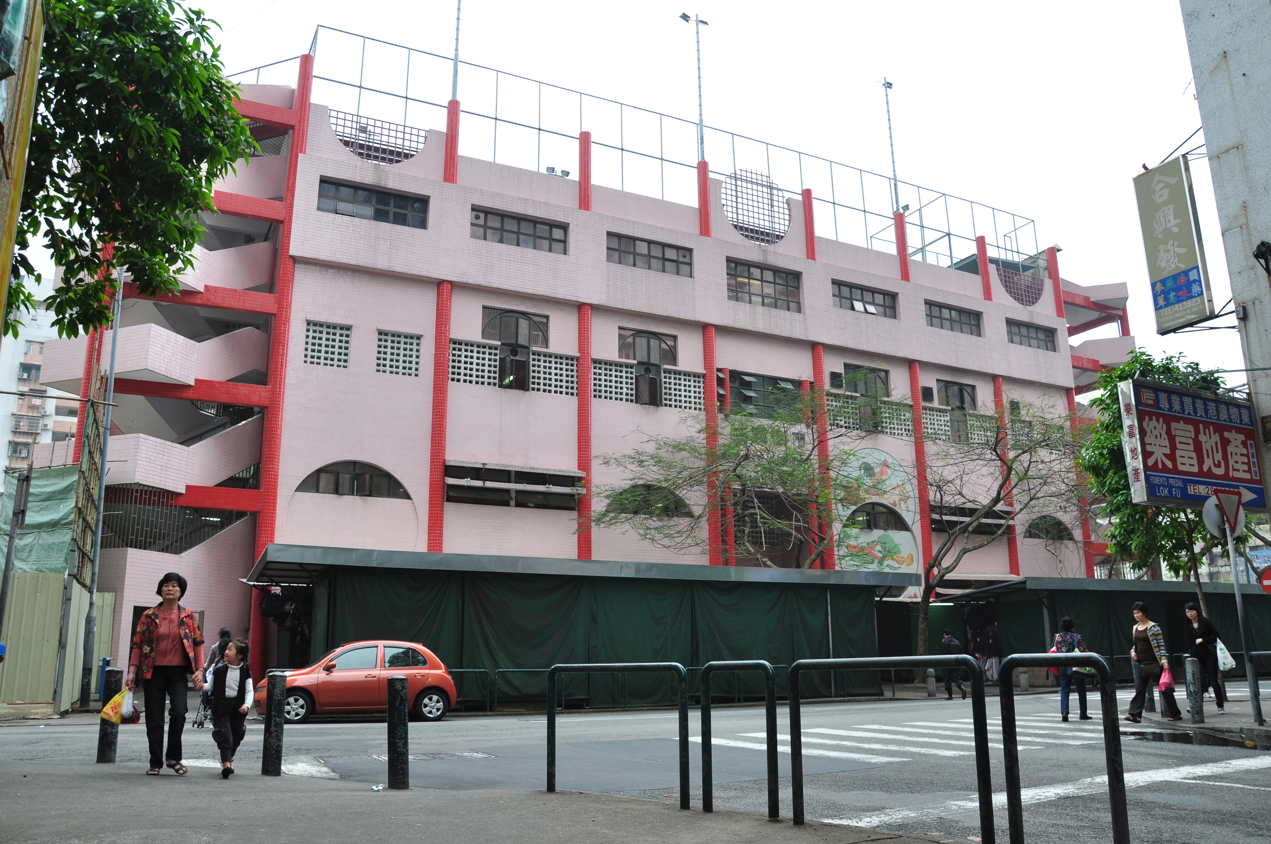 Iao Hon Market, Macau